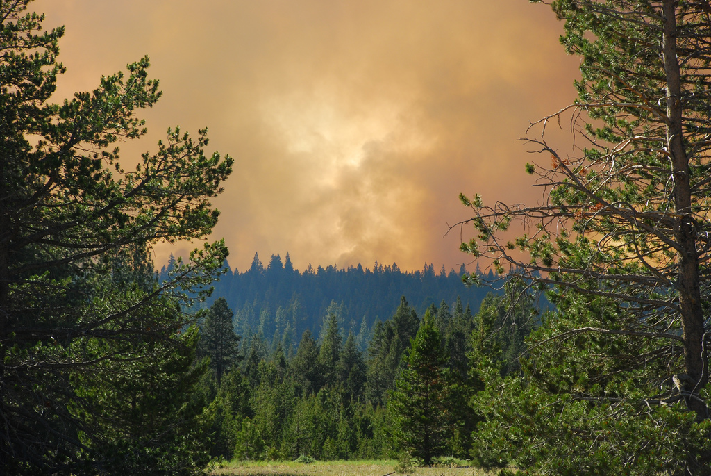 5.18pm, view the 2007 Angora Ridge Forest Fire from Highway 89, South Lake Tahoe, California.